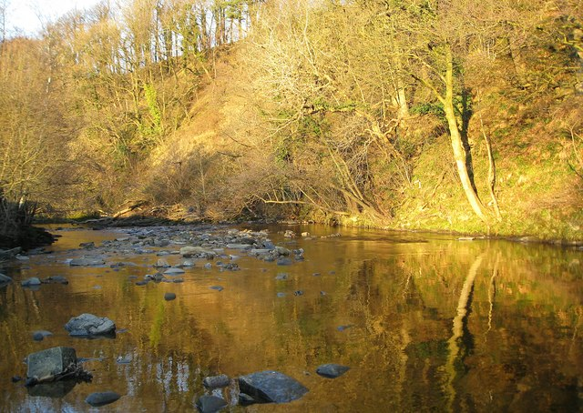 Reflections on the River Hindburn The slow moving pools provide an opportunity to mirror the reflections of the trees.